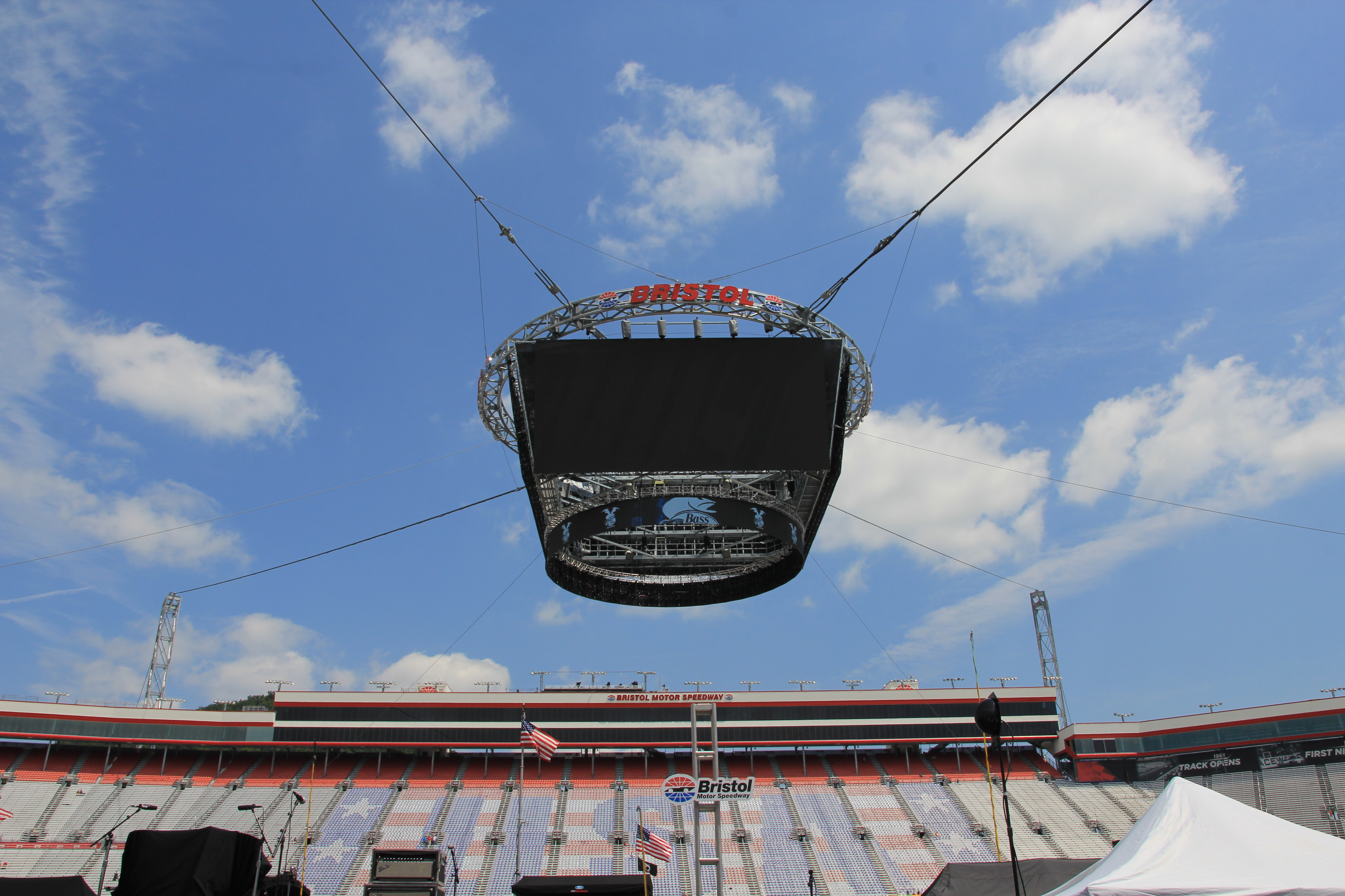 "Colossus TV" at Bristol Motor Speedway